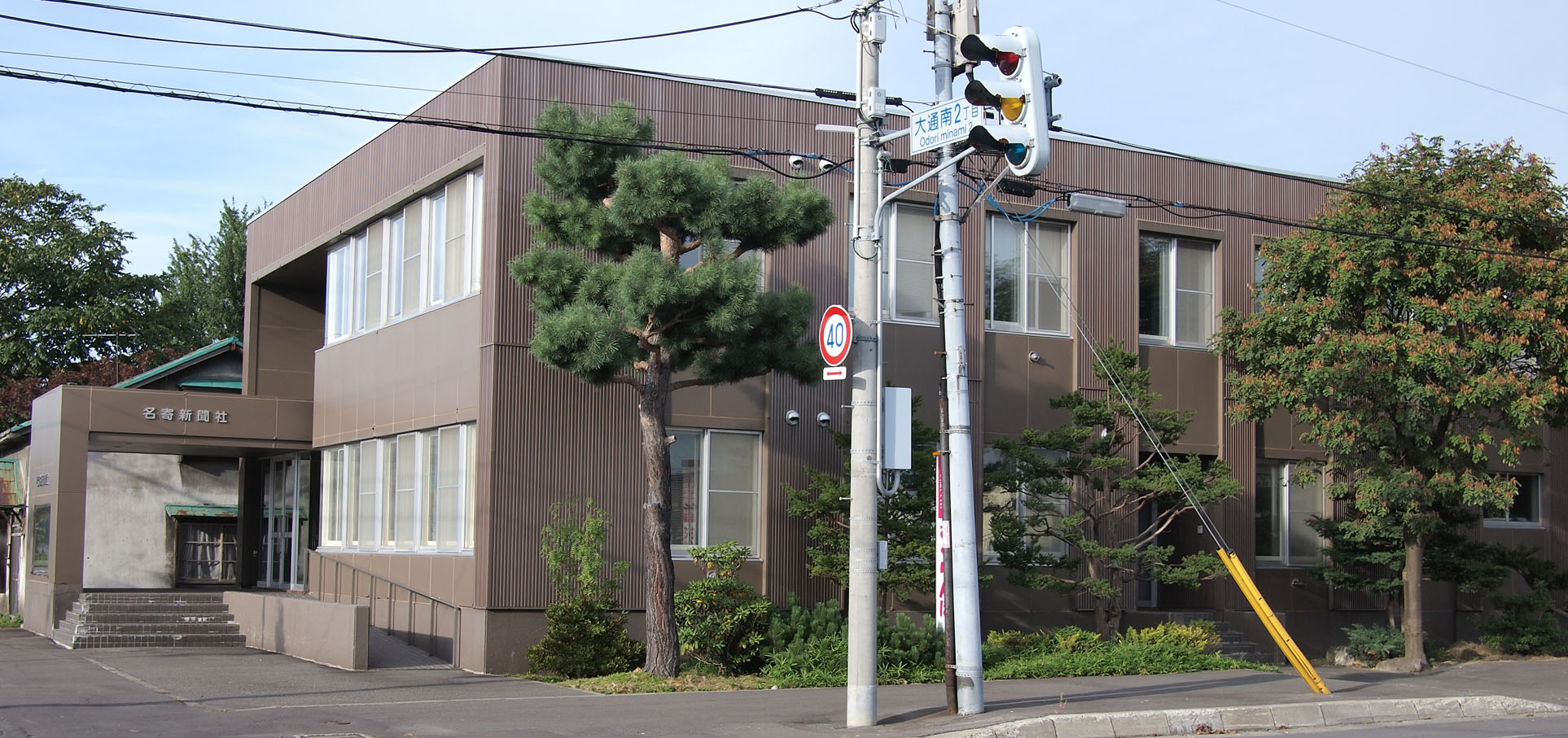 Nayoro Newspaper, Nayoro, Hokkaido, Japan